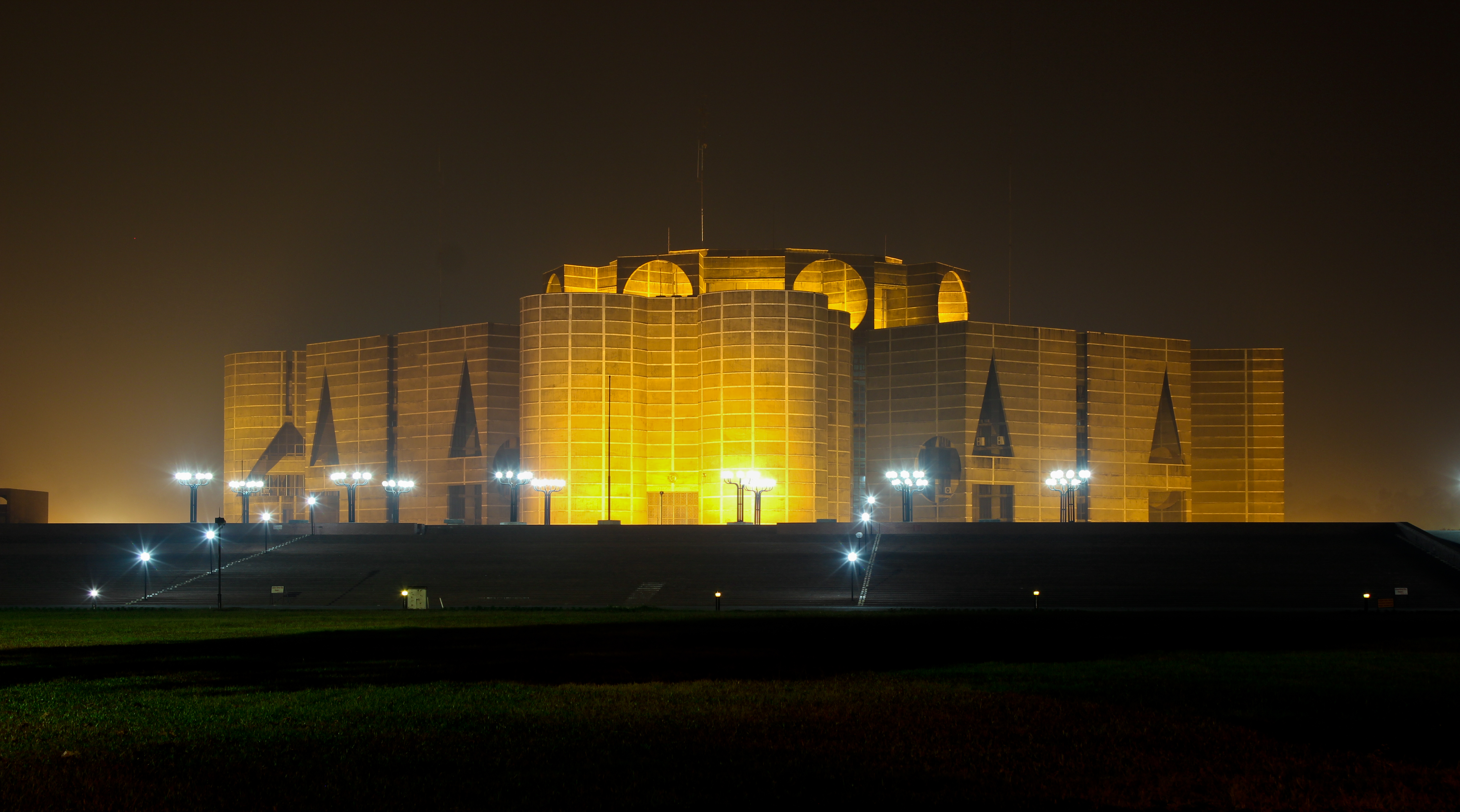 Colorful National Parliament House of Bangladesh at Night. Jatiyo Sangsad Bhaban.